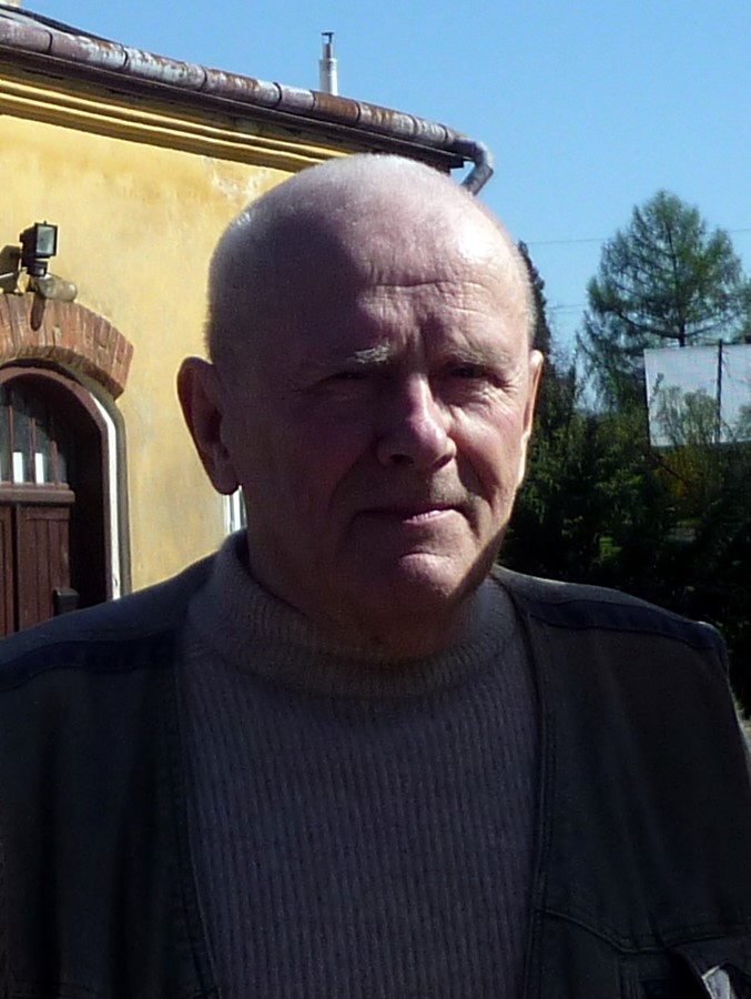 Tomasz Jurasz